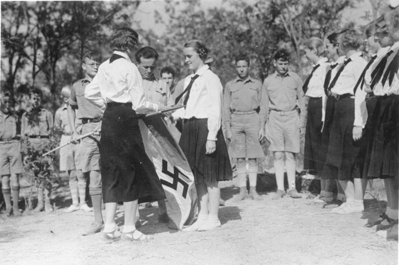 Hitler Youth and League of German Girls in Tianjin, China